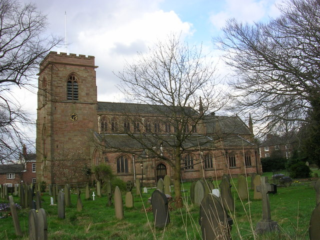 St Wilfrid's parish church, Ford Lane, Northenden, Greater Manchester, seen from the south